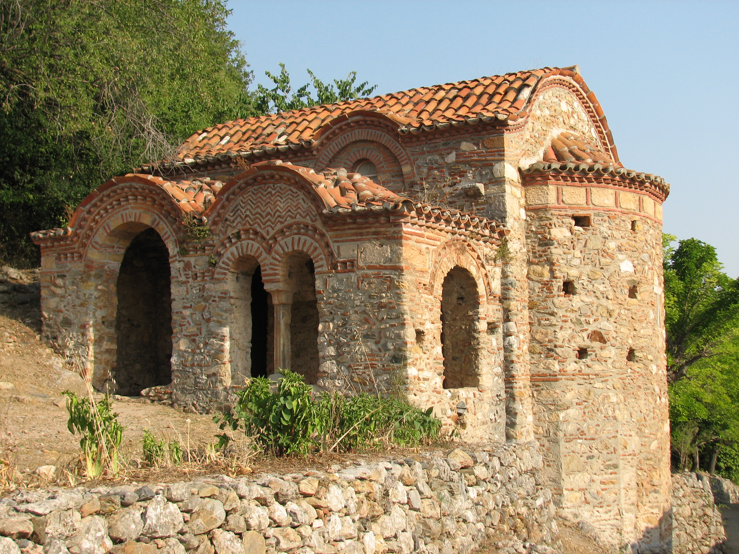 Byzantine city of Mystras,church of saint George.